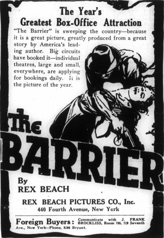 Advertisement for the American drama film The Barrier (1917), on page 23 of the April 27, 1917 Variety.